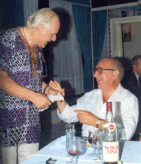 Norman Macleod, Byron Zappas, Chess composers at the closing banquet of the PCCC-Session 1990 in Benidorm, Spain